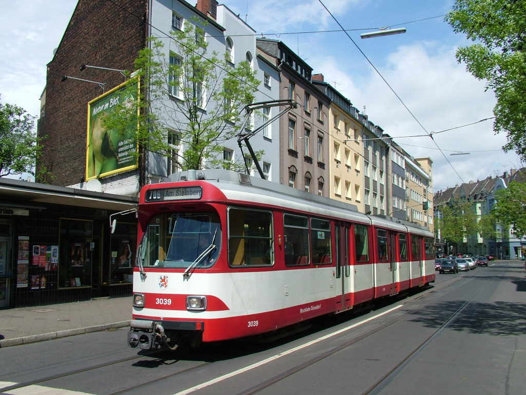 Tramcar 3039 (type GT8S) of Rheinbahn in Duesseldorf-Flingern Nord, 2005-05-08